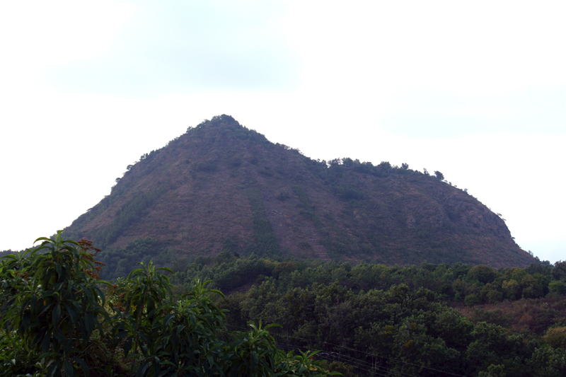 Vista del Cerro de Oro. Deparatamento de Sololá